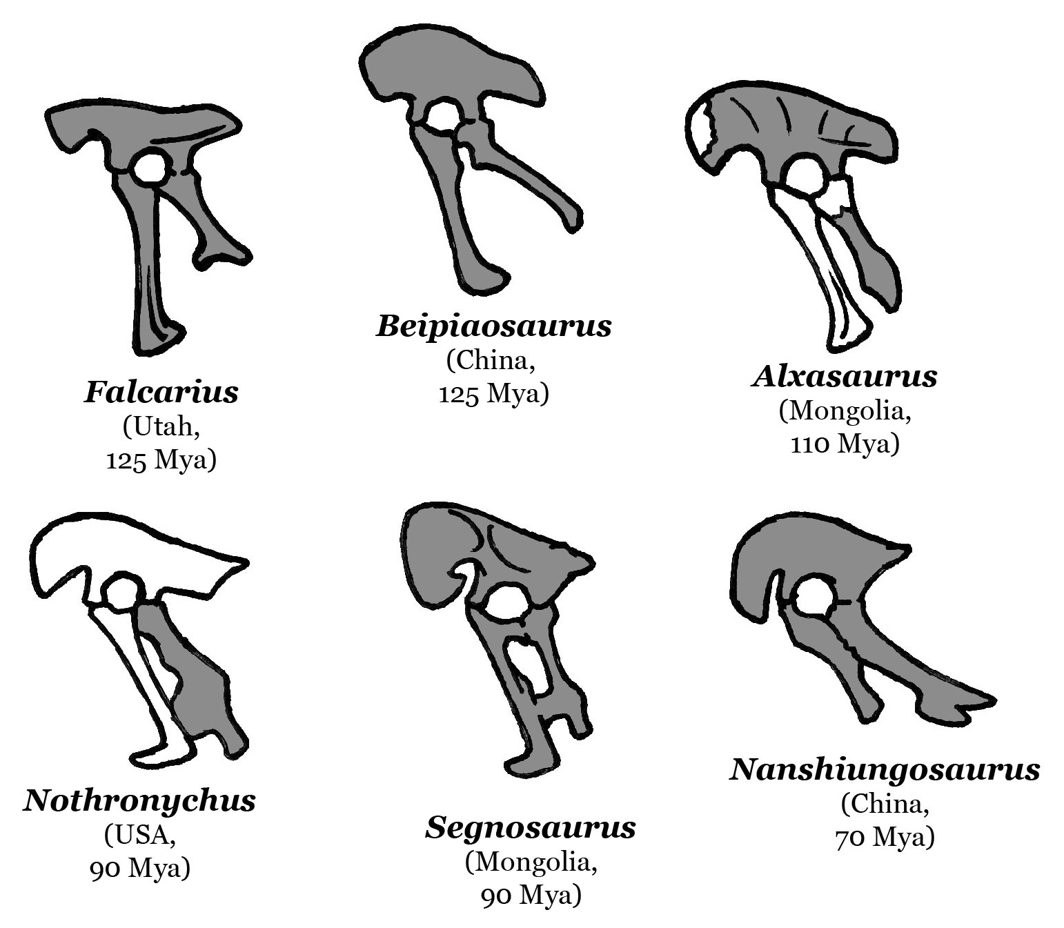 Diagram of the hipbones ( Ilion, Pubis and Isquion ) in different types of dinosaurs within the superfamily Therizinosauroidea. The genera is assorted after their calculated age. Very typical for Therizinosauroids is their hips with a pubic pointing backward and fused with the Isquion. Since paleontologists belive the Therizinosauroids evolved from agile predators, the pubic is belived to have reshaped , so the animals could squat to rest when feeding from trees. References The hips are based on information found at [1], [2] (Alxasaurus), [3], [4] (Nanschiungosaurus) and [5] (Alaxasaurus).